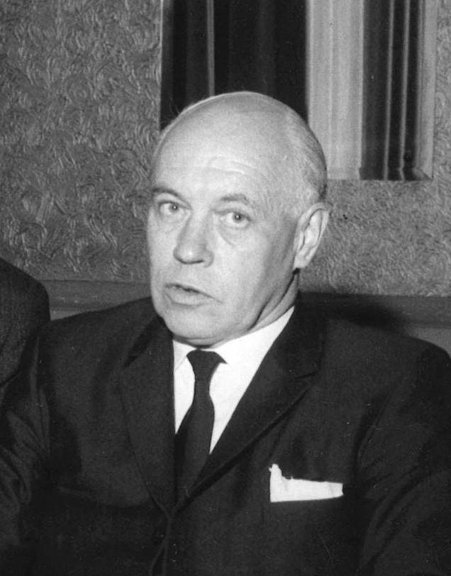 Photograph of three executives at Nokia Oy: Bengt Widing, Jarl Hohenthal and Björn Westerlund.